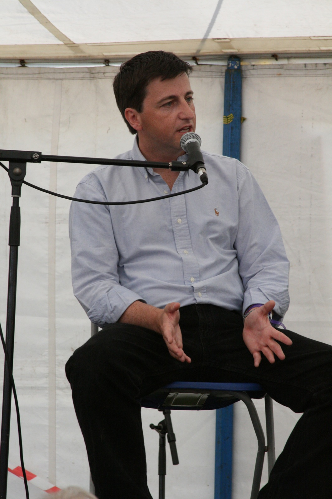 Douglas Alexander, MP. Former Minister of State for Europe, former Secretary of State for Transport and Secretary of State for Scotland. Under Gordon Brown Secretary of State for International Development. Image taken on August 27, 2007. Provided originally under CC-BY-NC, now under CC-BY on my request.